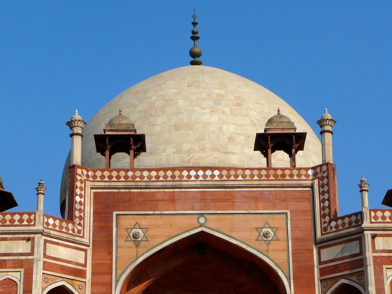 The white marble dome and chhatris on the roof of Humayun's tomb.